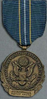 US Arms Control and Disarmament Agency Meritorious Honor Award medal. The Meritorious Honor Award is an award of the United States Arms Control and Disarmament Agency, an independent agency charged with implementing and verifying arms control strategies which has since been merged into the Department of State. This award has been replaced with the State Department's Meritorious Honor Award. This award was presented to groups or individuals in recognition of a special act or service or sustained outstanding performance.